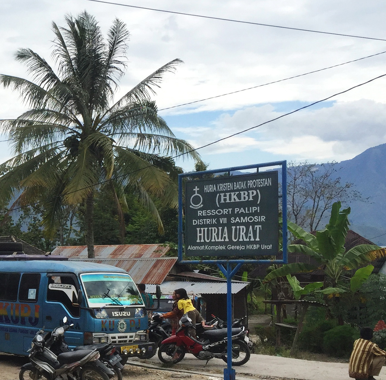 HKBP Urat, Church in Palipi, Samosir